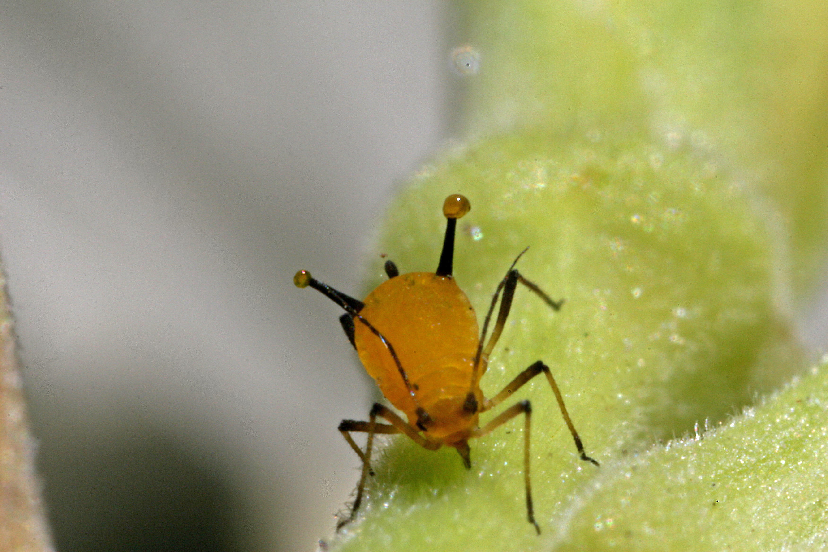 Aphid feeding on sap